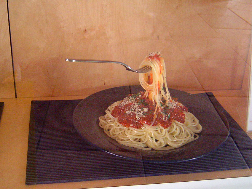 Plastic sample of spaghetti tomato sauce